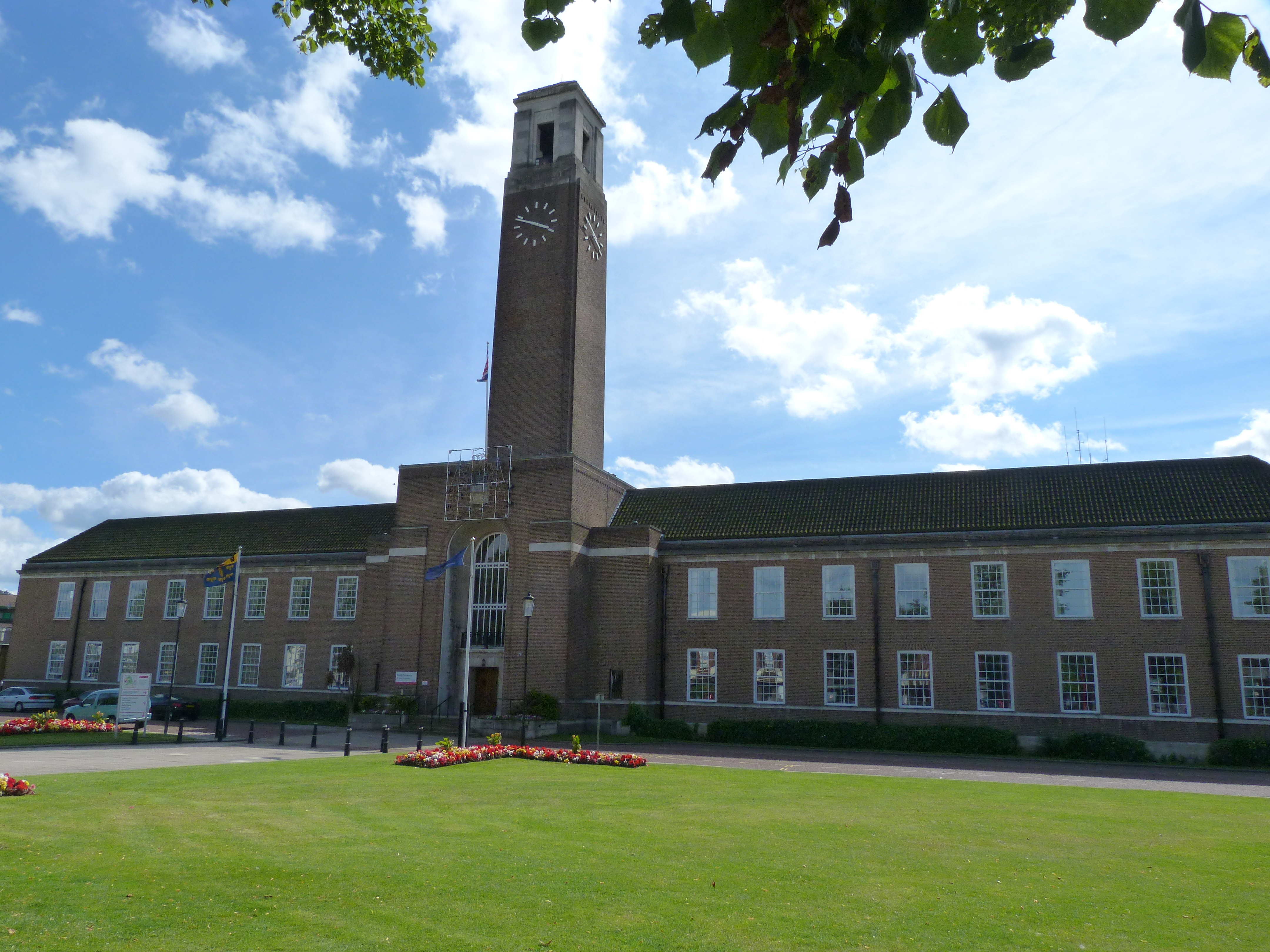 The 1937 building is of neo-classical style. Its most impressive feature is the clock tower, which is nearly 38m high and is 1.7m2 at its base. The clock face on each side of the tower is 2.7m in diameter. The digits of the clock are plain rectangular blocks of bronze, measuring 35x10cm and were covered in gold leaf.